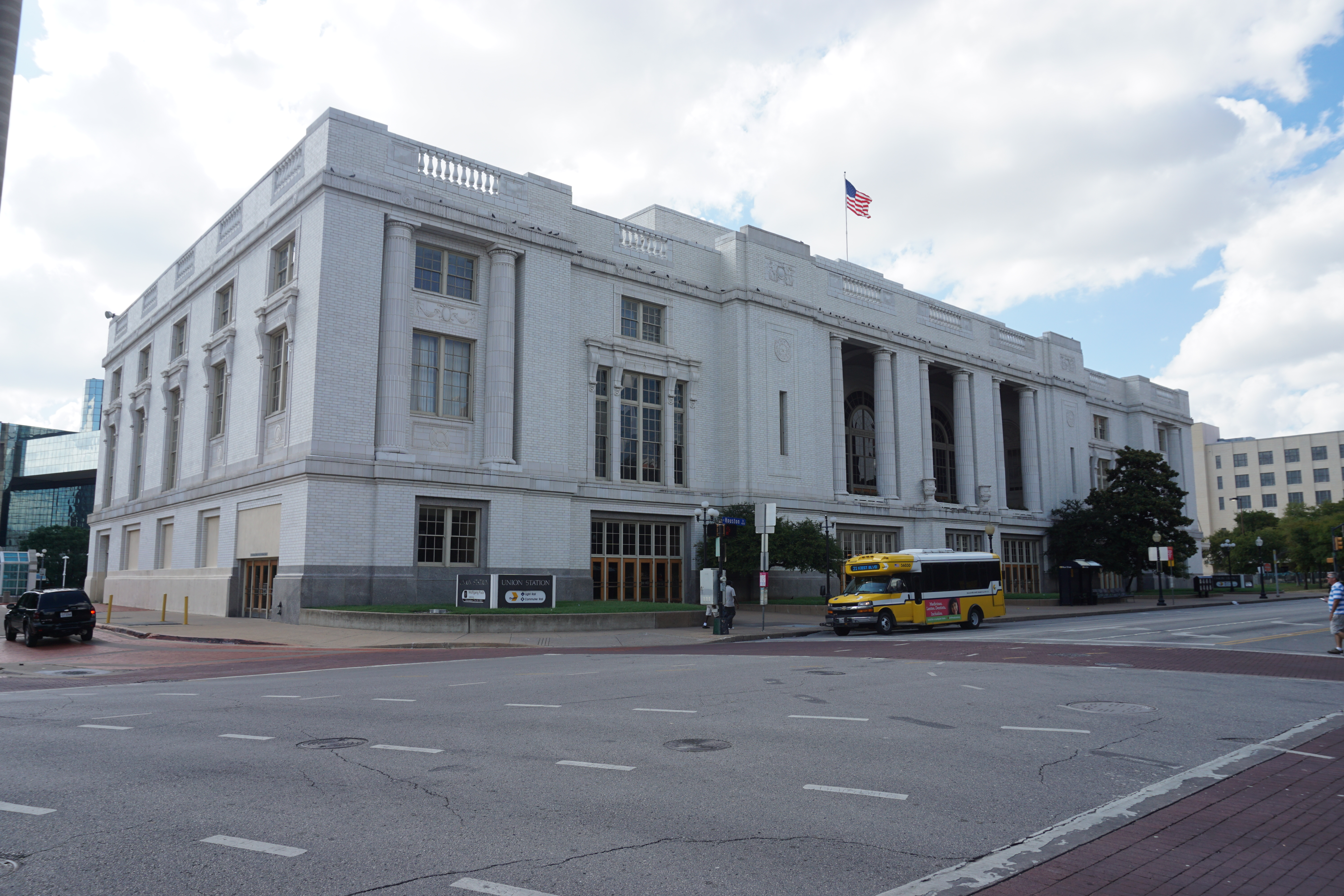 Union Station in Dallas, Texas (United States).